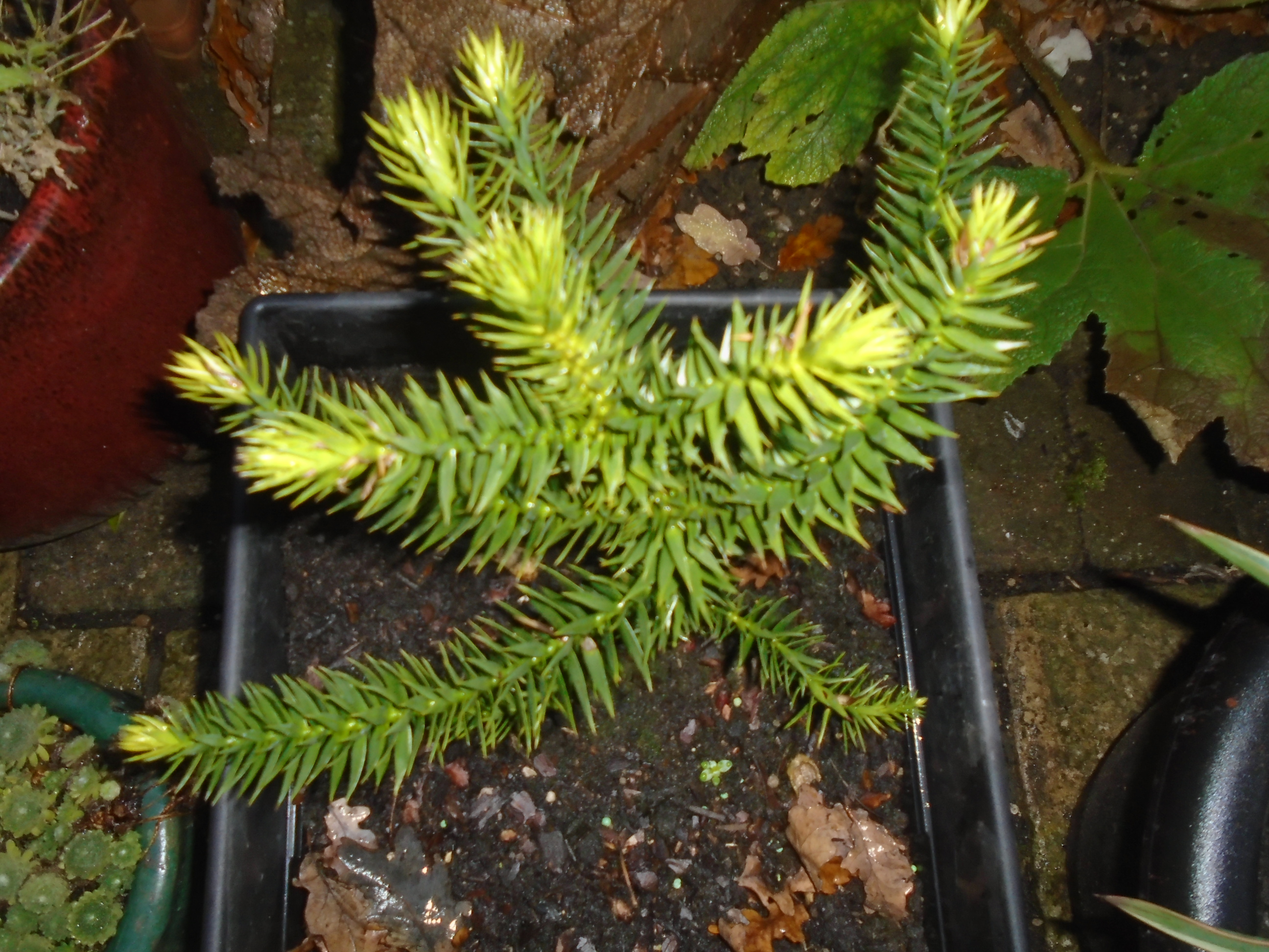 A young Araucaria araucana